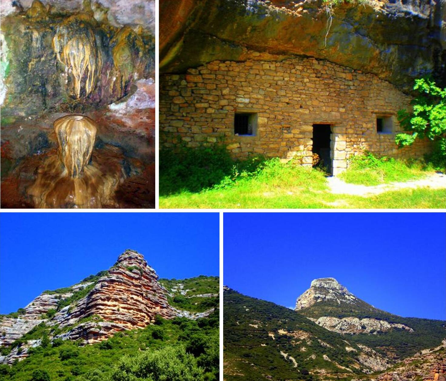 Natural route